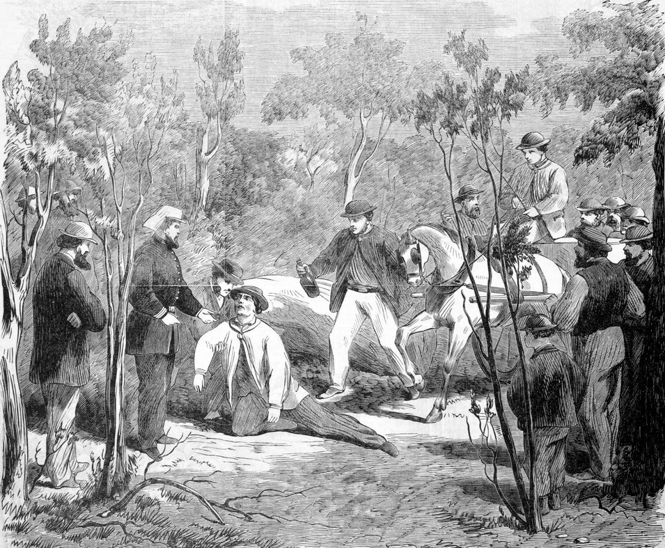 Wood engraving of Australian bushranger John Dunn being recaptured.